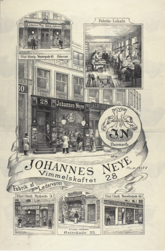 Advertisement for Neye at Vimmelskaftet 28 in Copenhagen, Denmark